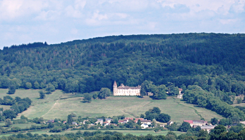 City And Castle of Bazoches, Nièvre, France.